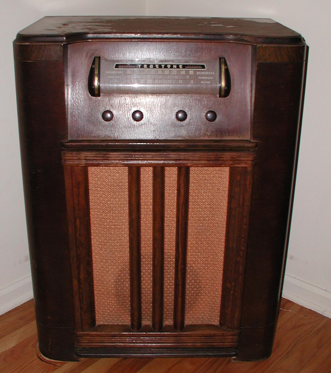 Uploader's description: Picture of a Truetone brand old-fashioned radio. Taken by Raul654 on March 25, 2004. Released under the GFDLComment: Truetone (aka Western Auto Supply Co. of Kansas City MO) built many similarly styled console radios since mid-1930s; the closest (probably exact) match is the 1947 model D1845 [1]. This was the last iteration of large consoles by Truetone, built until around 1950.